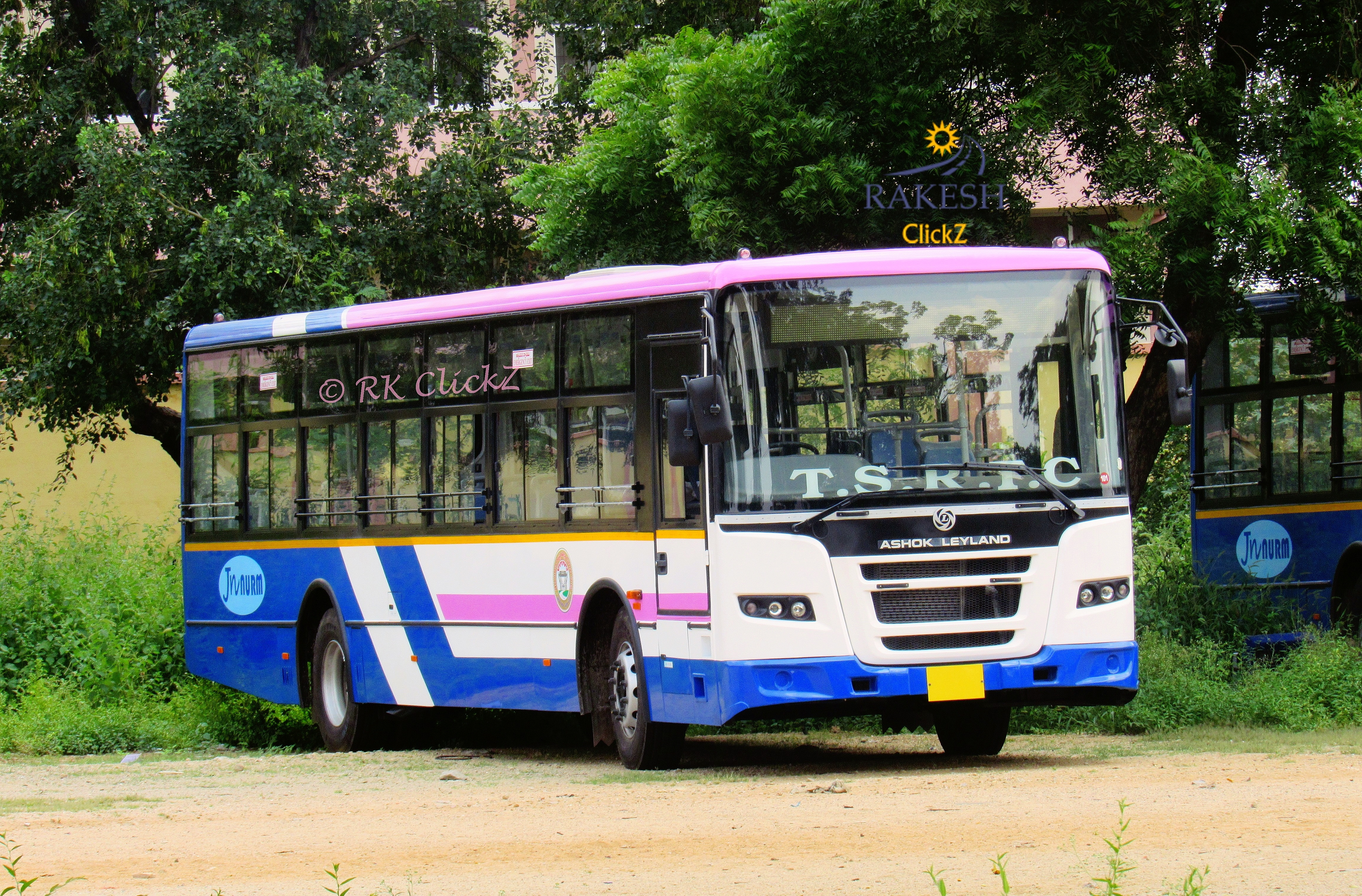 METRO EXPRESS Ashok Leyland SLF.